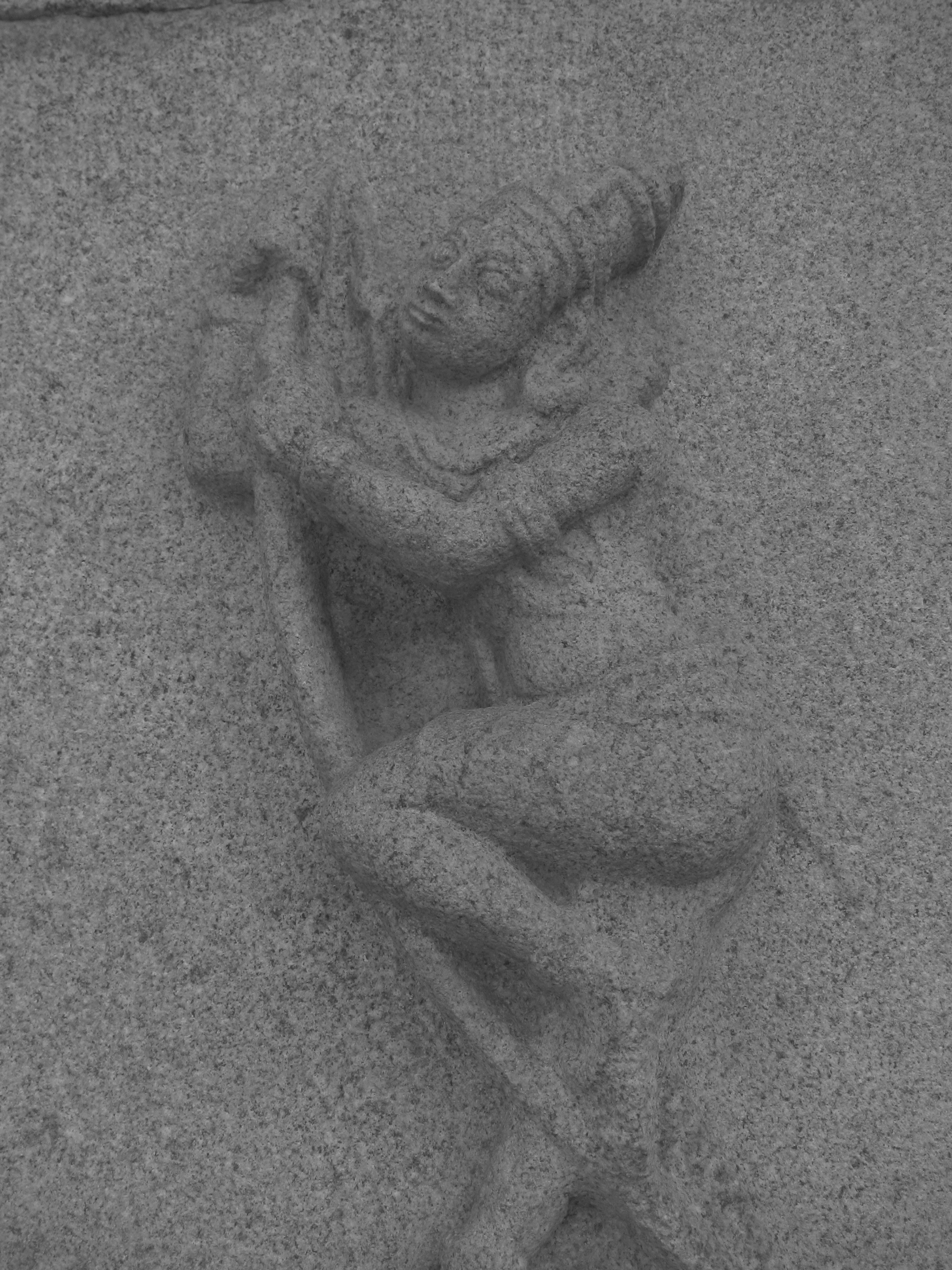 Rama breaking Shiva's bow, Temple carving, Hampi, India